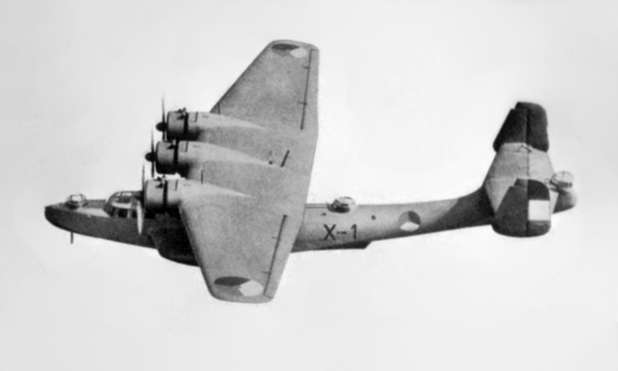 A Dutch Dornier Do 24K-1 flying-boat (s/n X-1, c/n 761) in flight. "X-1" was the first Do 24 ordered by the Marineluchtvaartdienst (Netherlands Naval Aviation Service). It was delivered on 3 July 1937 and finally lost on 3 March 1942 near Broome, Australia, during a Japanese air raid. Parts of the wreck are still visible today.